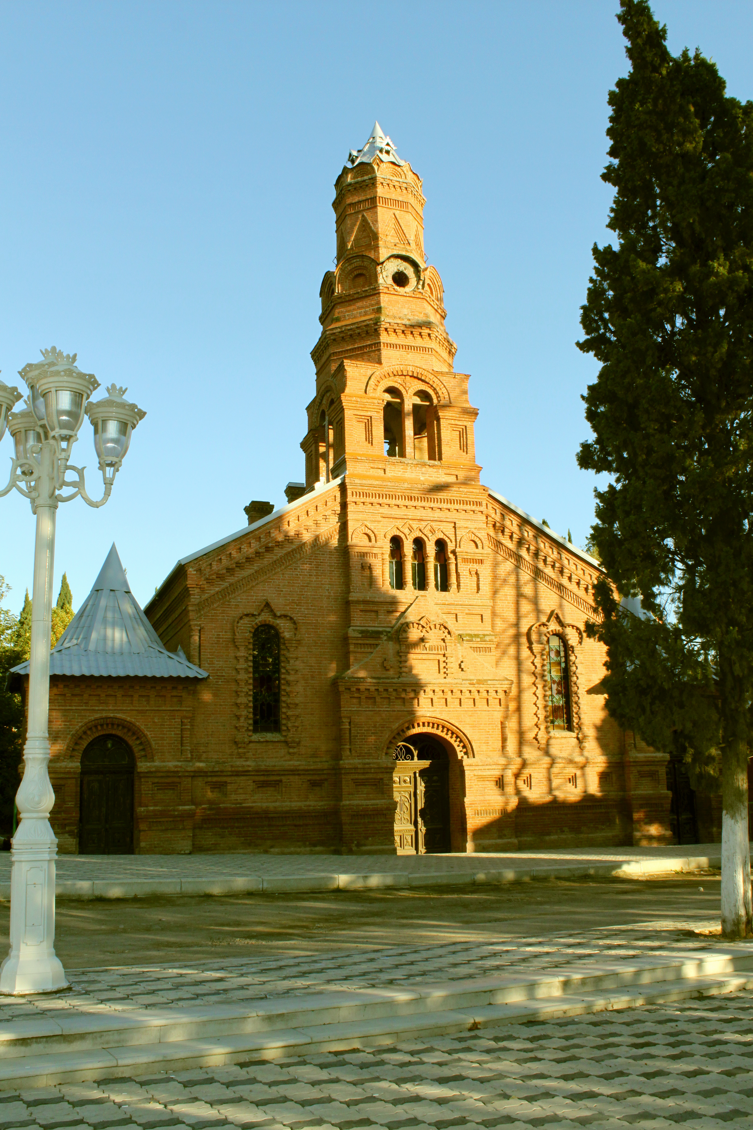 Lutheran church in Ganja